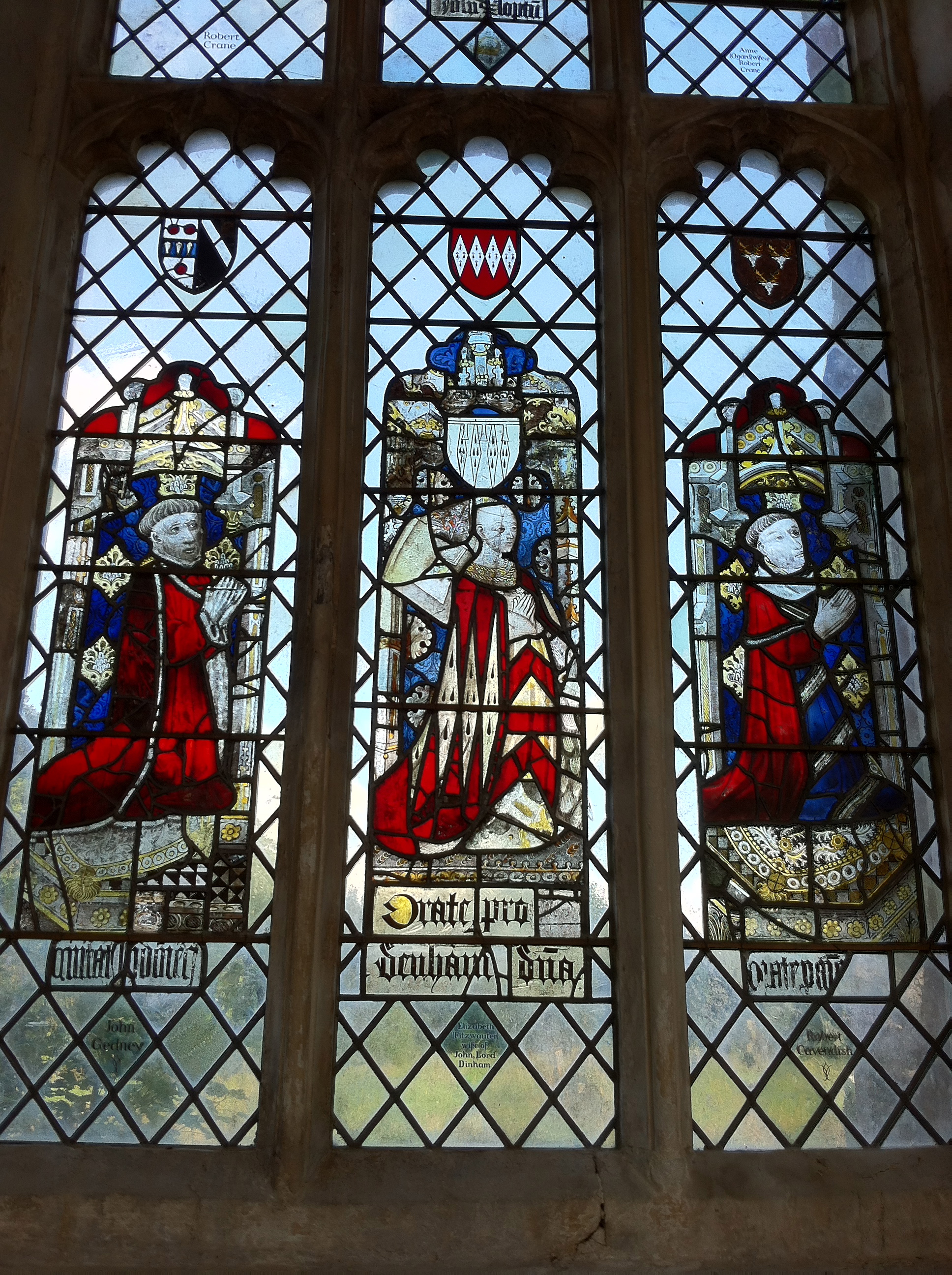 Stained glass in Holy Trinity, Long Melford. Long Melford; Holy Trinity Church; 15th century glass in the north aisle windows. Central window: Modern inscription below: "Elizabeth FitzWalter, wife of John, Lord Dinham". Dynham arms. A lady praying, with Dynham arms on her outer mantle, with FitzWalter arms on the front of her inner garment. Below Orate pro Denham d(omi)na ("Pray ye all for Lady Dinham"). Right, Modern inscription below: "Robert Cavendish"; the village and former manor of Cavendish is nearby. above kneeling man are the arms of Cavendish, with partial inscription: Orate p(ro) a(n)i(m)a .... ("Pray ye all for the soul...(of)..."). Window at left, Modern inscription below: "John Gedney". Kneeling man with shield above displaying: Argent, on a fess azure between three torteaux two and one three fleurs-de-lys proper (Gedney (?)) impaling: Sable, a bend argent. Unknown.